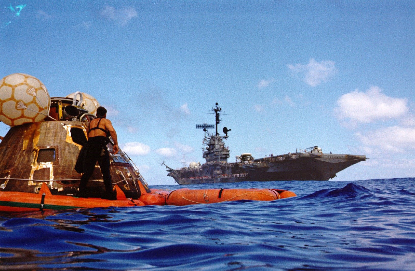 A water-level view of the Apollo 17 Command Module (CM) floating in the Pacific Ocean following splashdown and prior to recovery. The prime recovery ship, the U.S. Navy aircraft carrier USS Ticonderoga (CVS-14), is in the background. When this picture was taken, the three-man crew of astronauts Eugene A. Cernan, Ronald E. Evans and Harrison H. Schmitt, had already been picked up by helicopter and flown to the deck of the recovery ship. The spacecraft was later hoisted aboard the USS Ticonderoga. A United States Navy UDT swimmer stands on the flotation collar. Apollo 17 splashdown occurred at 13:24:59 (CST), 19 December 1972, about 350 nautical miles southeast of Samoa.